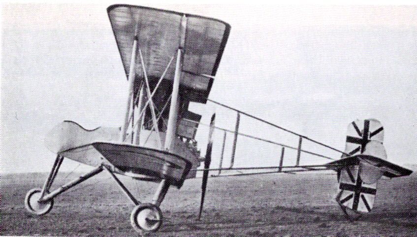 Breguet BUC/BLC de Chasse fitted with a Sunbeam Mohawk engine and armed with a single Lewis gun, operating with No. 5 Wing, Royal Naval Air Service, in Belgium sometime between April and June 1916.